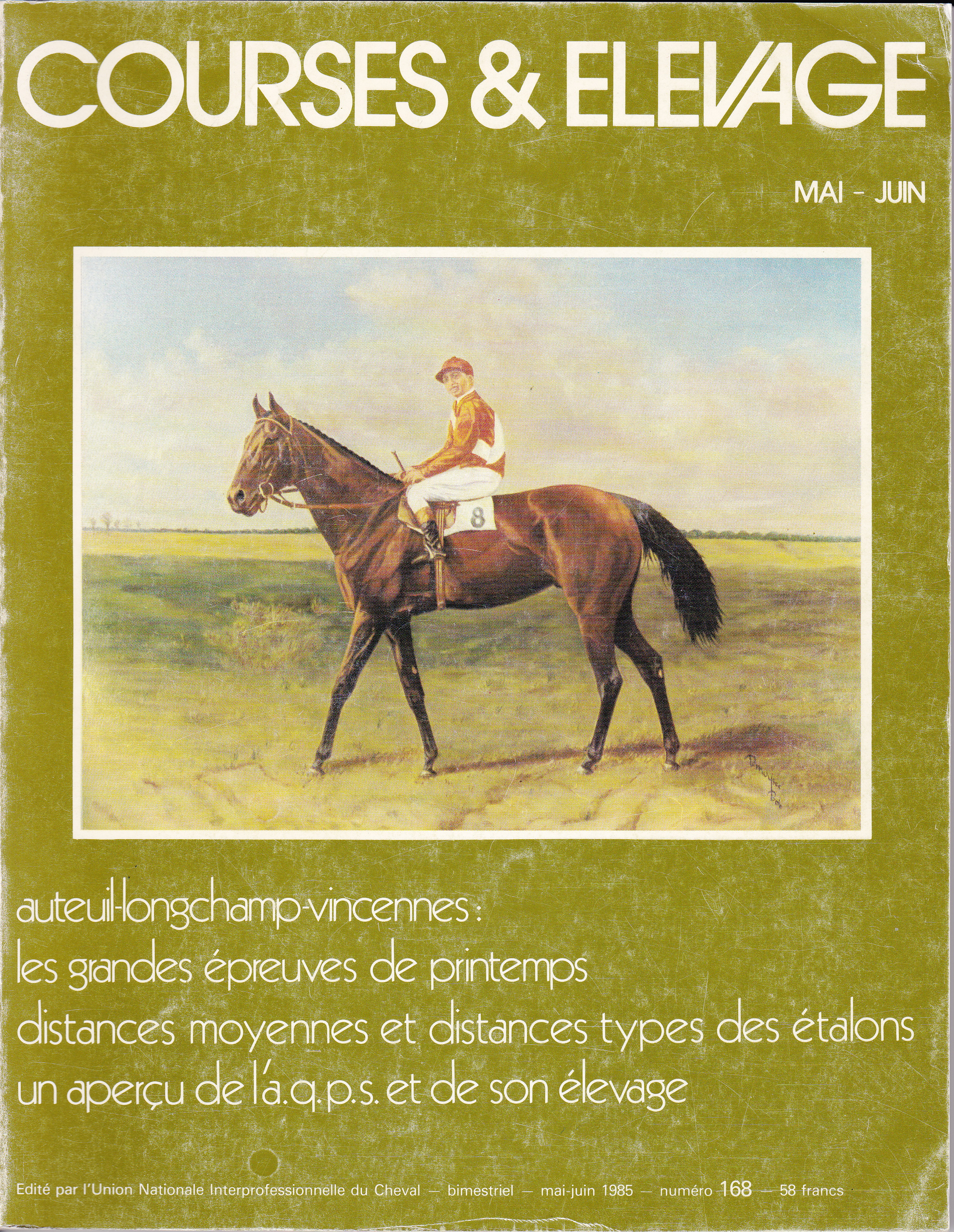 PRINCE ROSE (Hervé Denaigre) painting by Bob Demuyser, Belgian animal painter, cover of the magazine COURSES & ELEVAGE from May-June 1985